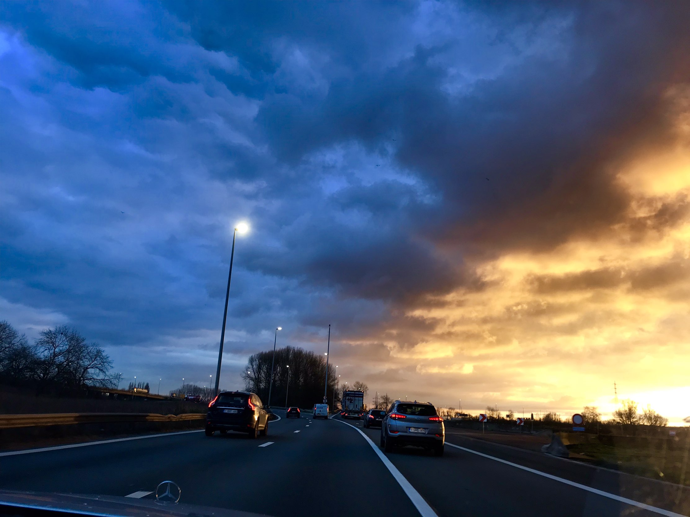 R1 (Beveren) at Sunset